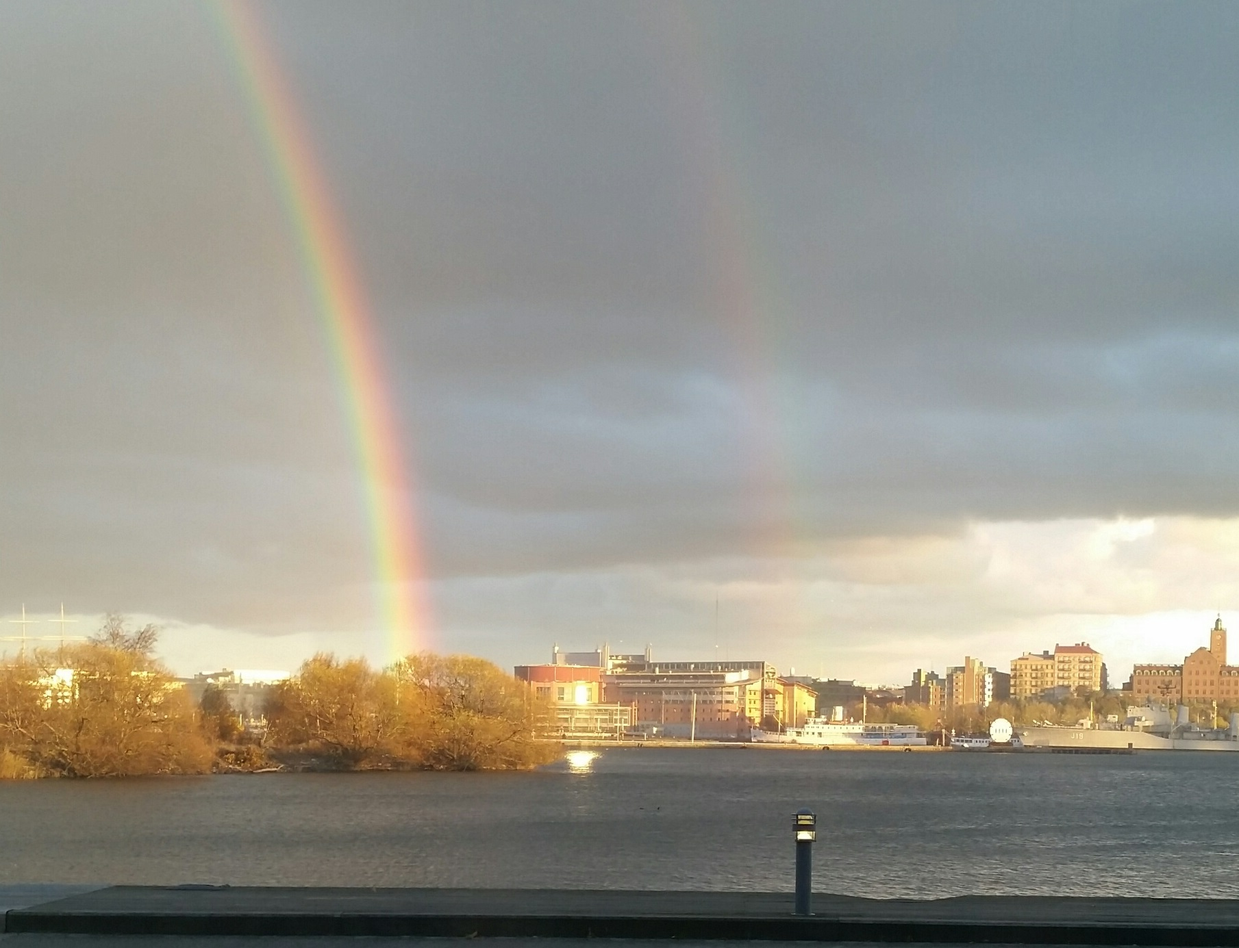 Gothenburg Opera House with a double rainbow